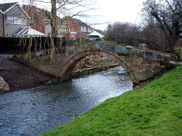 Early 17th-century packhorse bridge over Willow Beckby Romanby village green, North Yorkshire